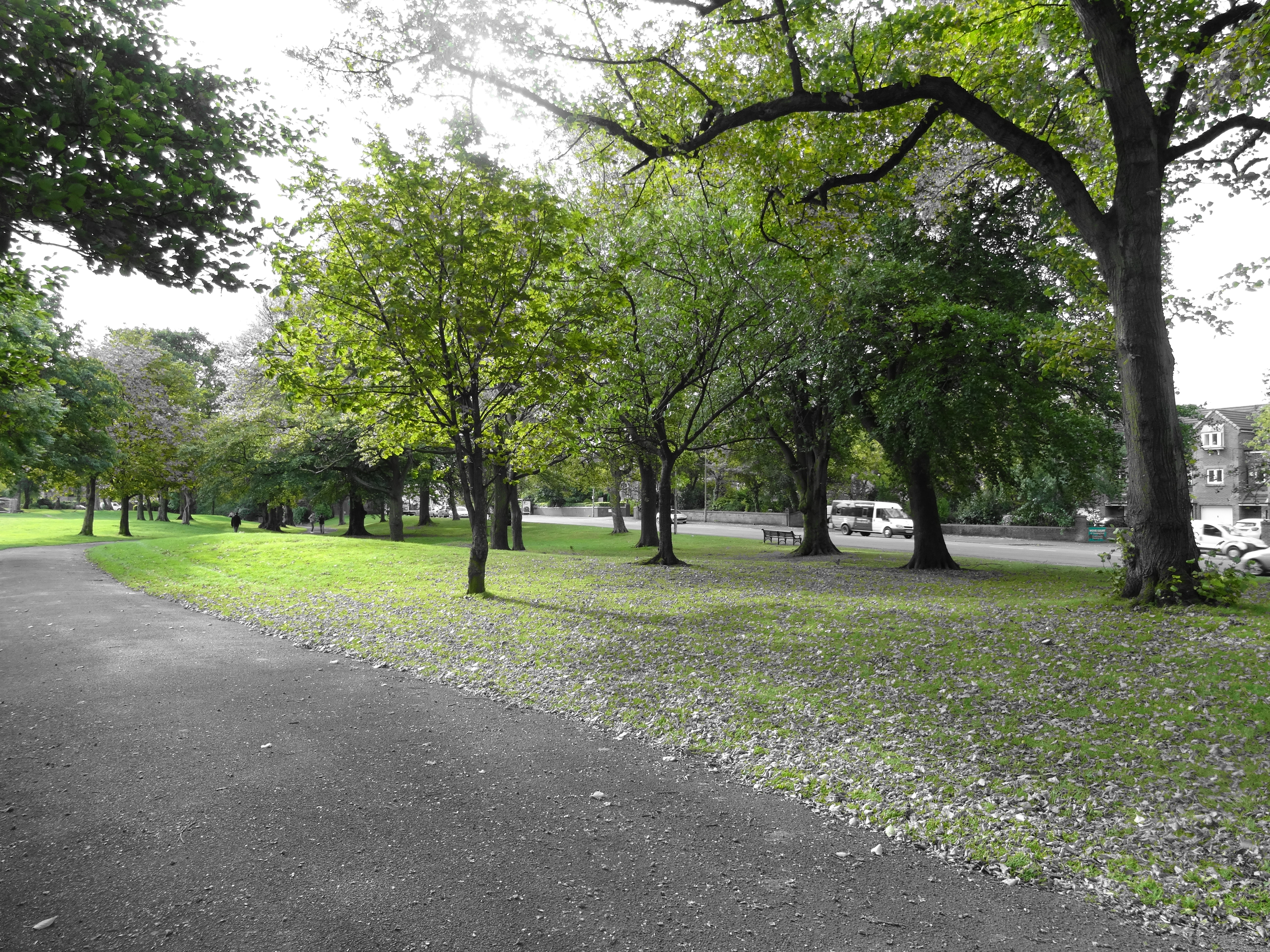 Photo of Moor Park, Preston looking at the Garstang Road side along one of its pathways.